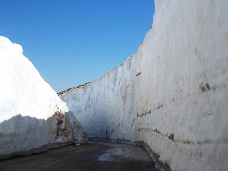 daher all kadib in bsharri mountain during spring time